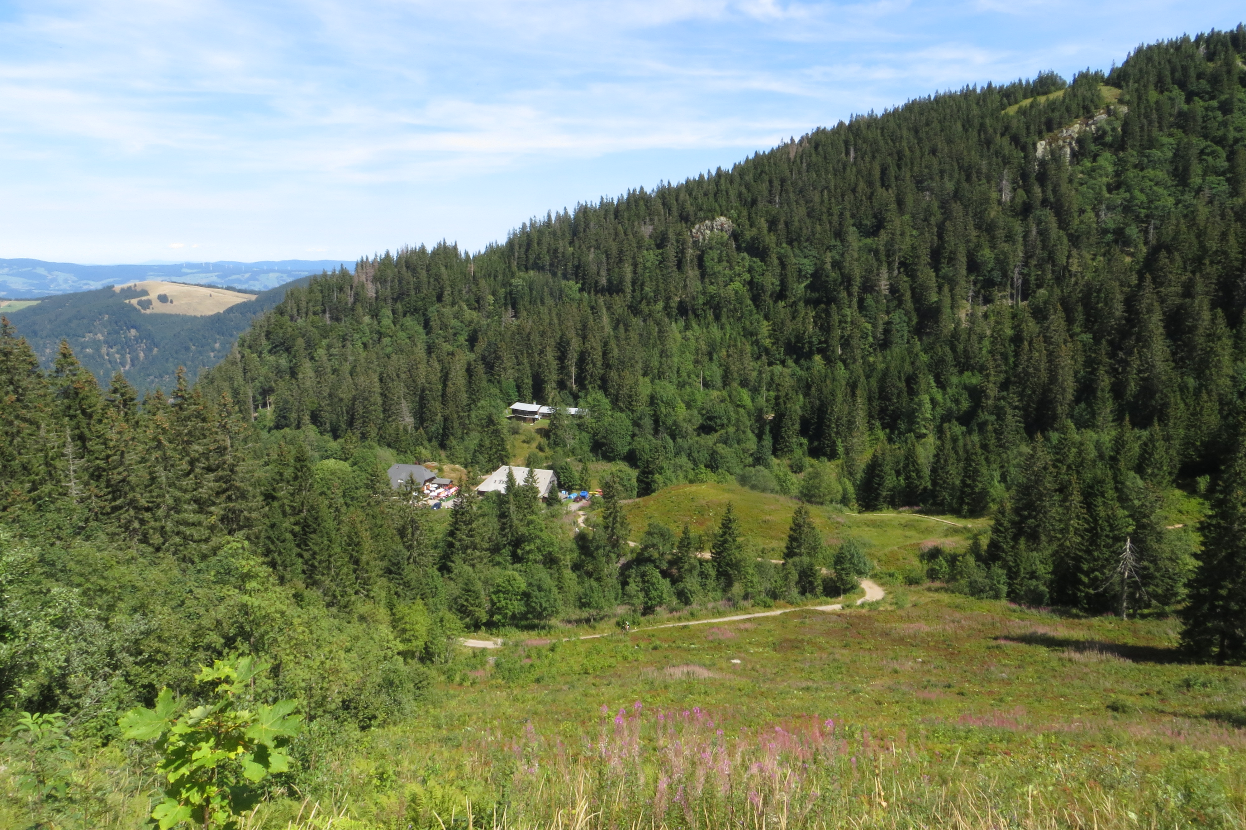 The bottom of the Zastler Loch, a cirque staircase below the Feldberg, Baden-Wuerttemberg, Germany. Centre: the Zastler Hut.